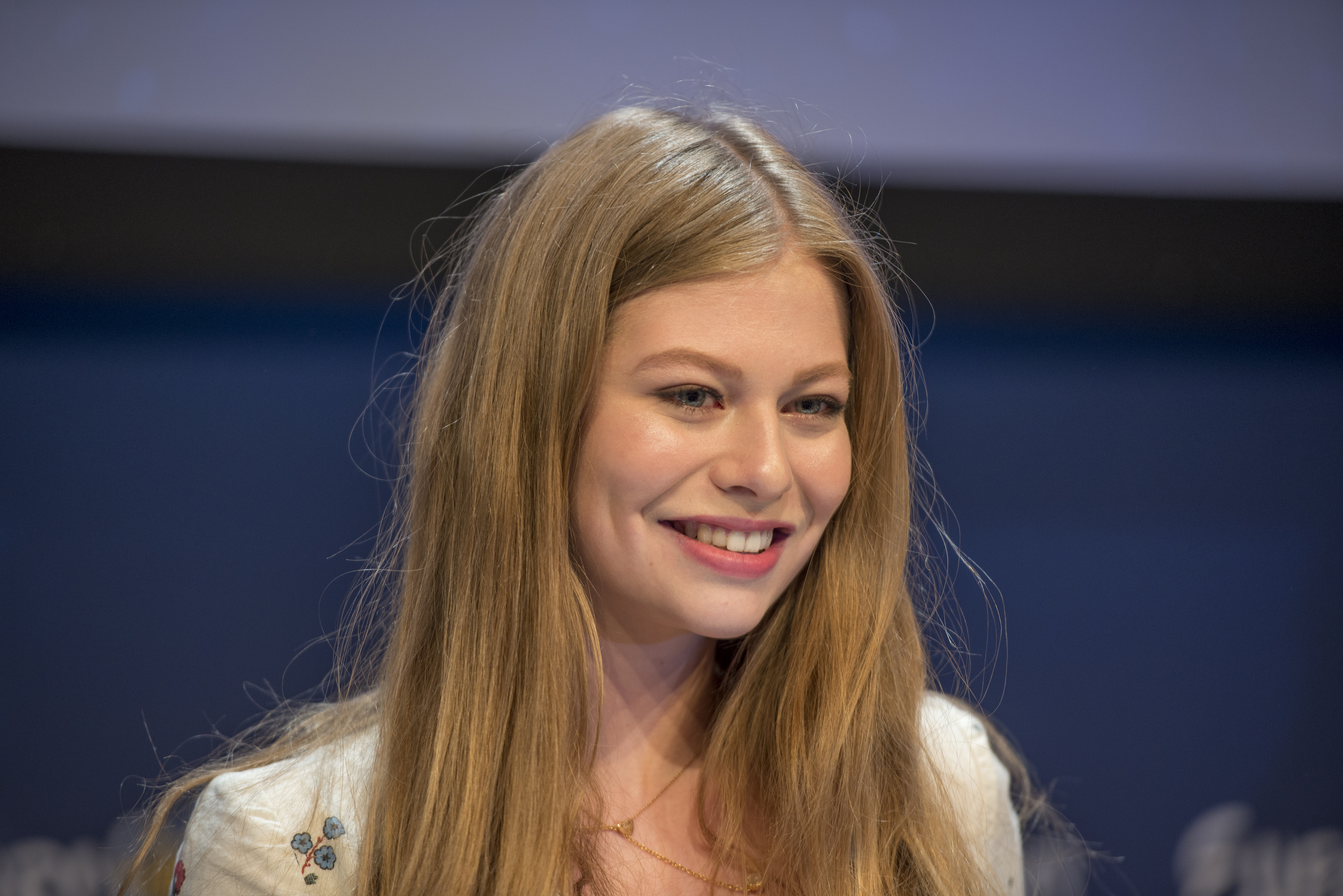 Zoë at a Meet & Greet during the Eurovision Song Contest 2016 in Stockholm. (Help translate this text)